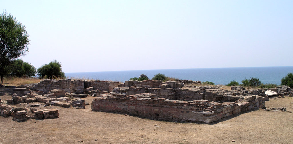 Church on the acropolis of Abdera/Polystylon, Greece. Photograph taken by Marsyas on 07/24/2004.